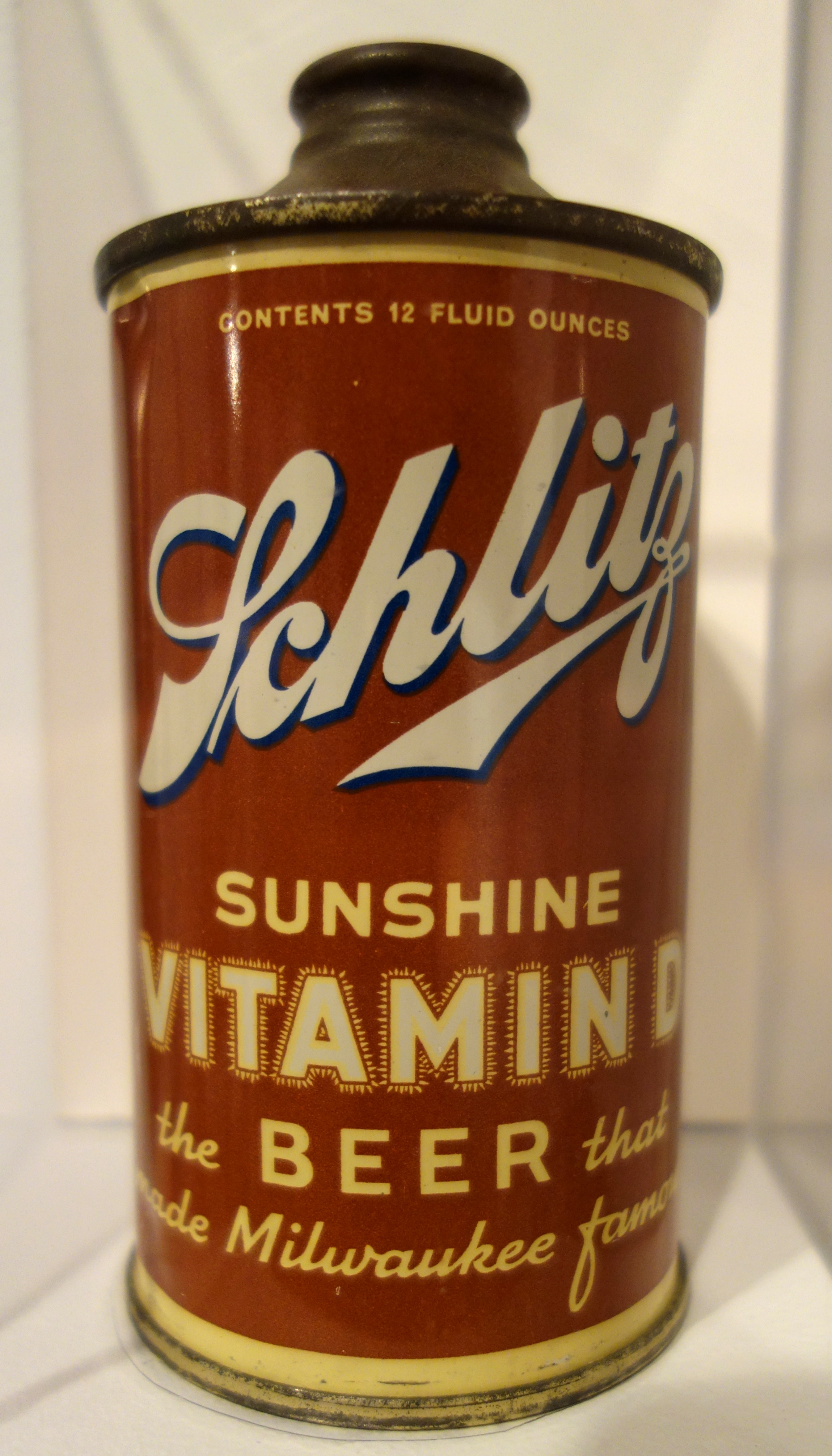 Exhibit in the Wisconsin Historical Museum, Madison, Wisconsin, USA. This item is old enough so that it is in the public domain.